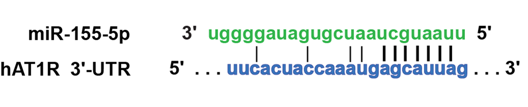 miR-155 and AGT1R mRNA base pairing.